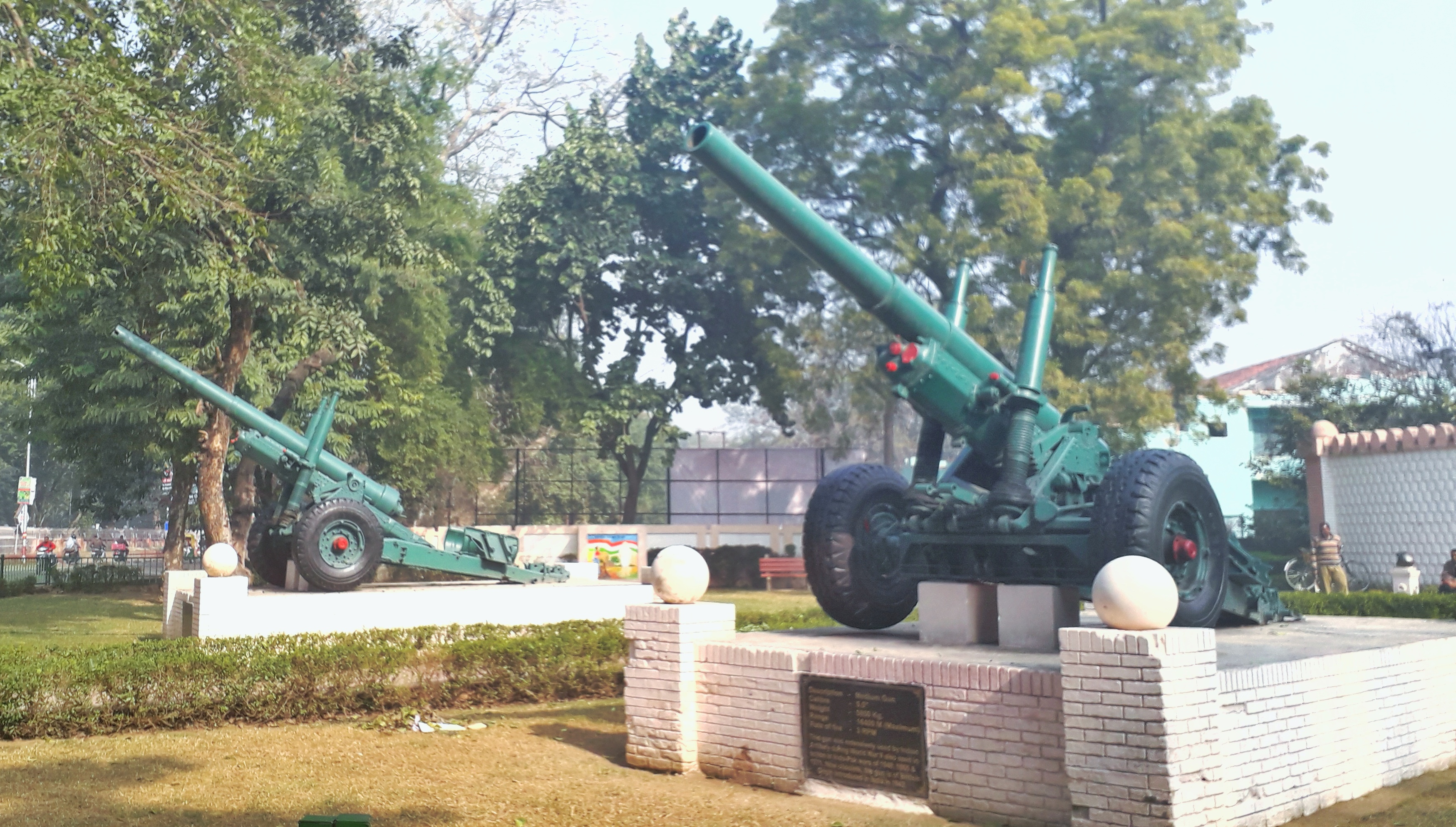 Cannons at Kargil Chowk, Bareilly Cantt